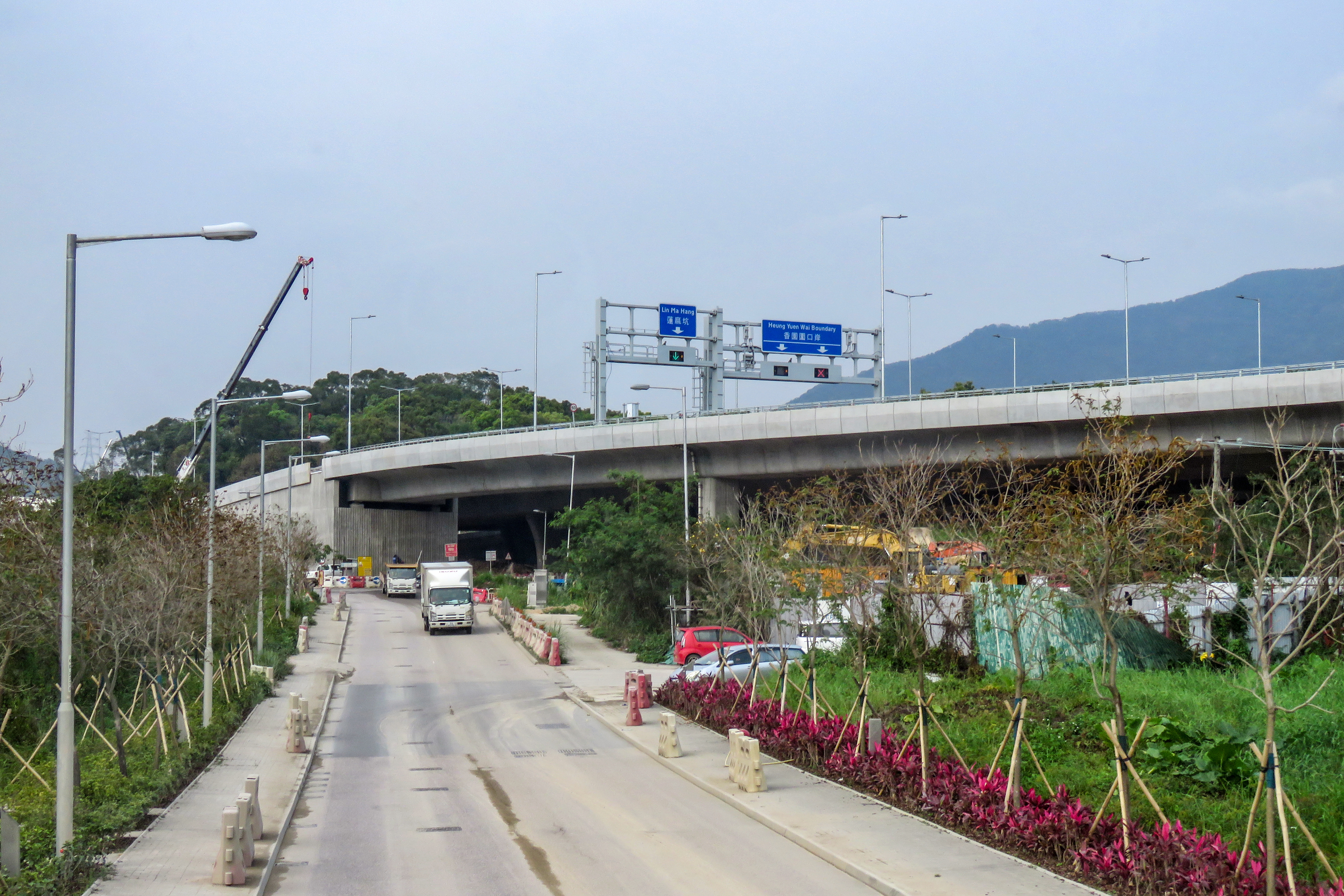 Taken from a 79K near the new boundary crossing facilities.